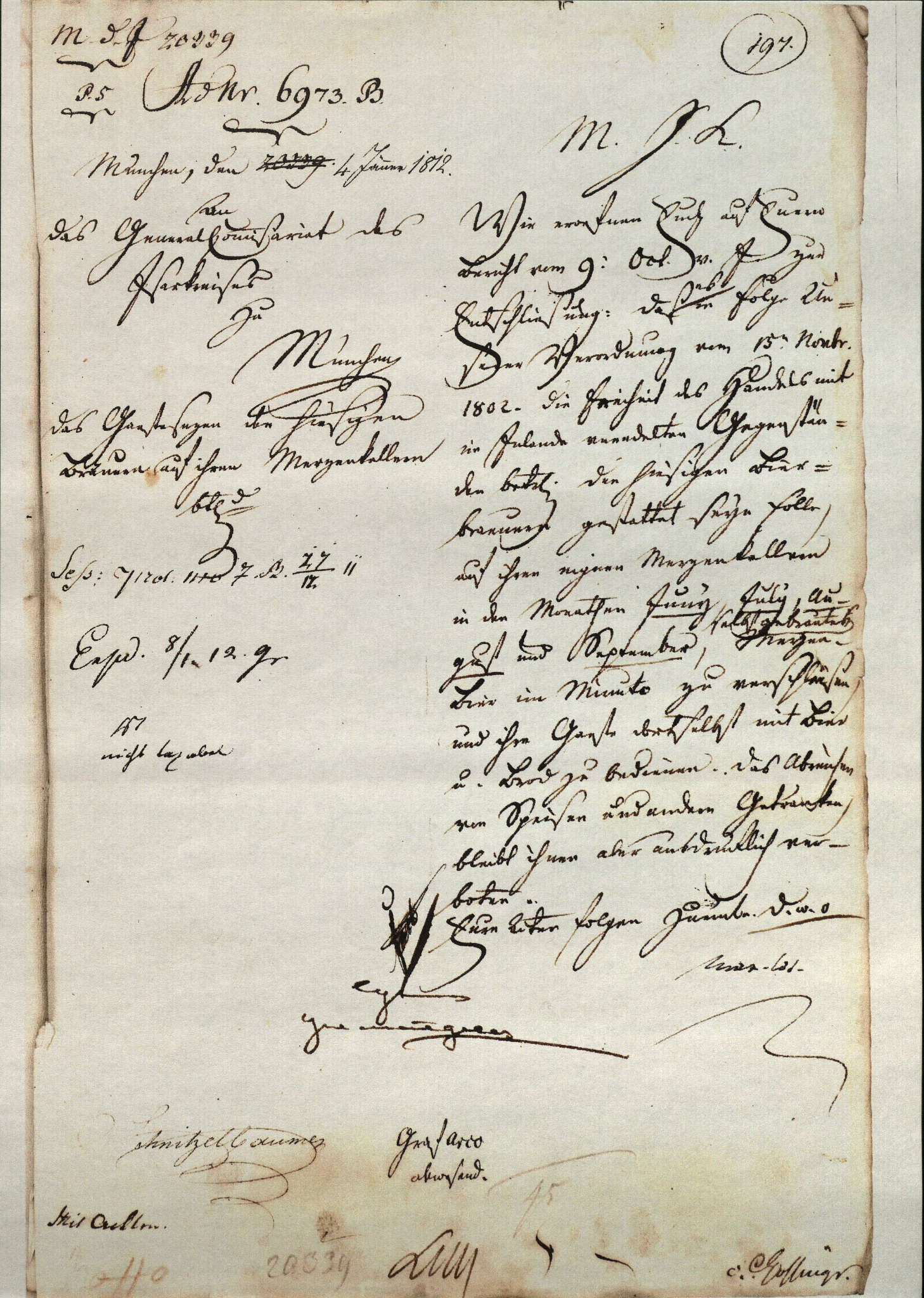 rescript by king Max I. Joseph of Bavaria, dated 1812-01-04, permitting local brewers to serve their beer from the ice cellars, but no food with it besides bread. This constitutes the birth of the beer garden